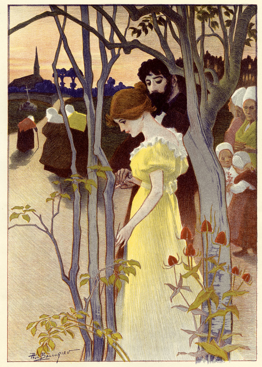 Crépuscule by Paul Balluriau, lithographic print from L'Estampe moderne, vol. I, Paris, F. Champenois.